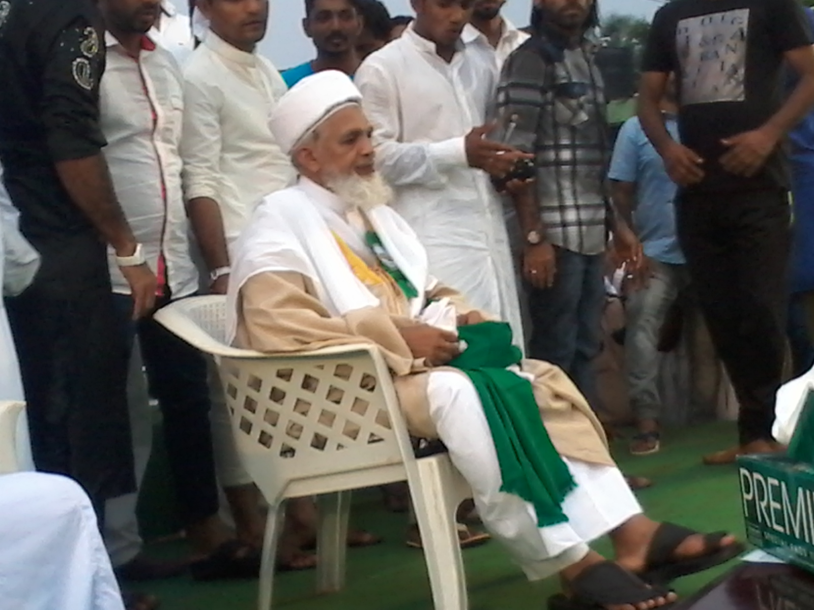 Kazi appointing ceremony